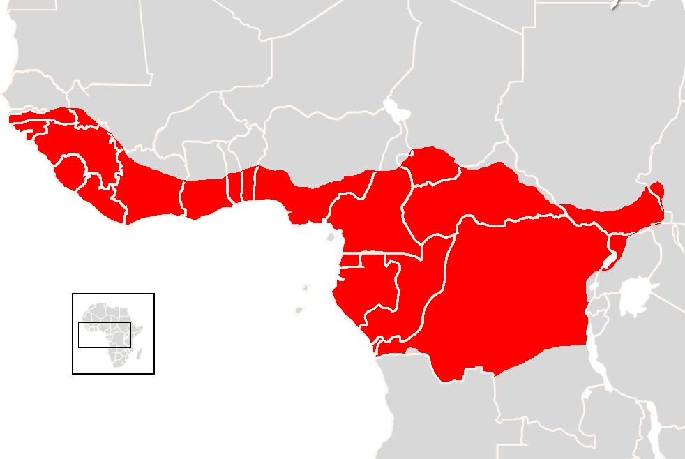 Red River Hog (Potamochoerus porcus), range map, depending on the range map at IUCN red list